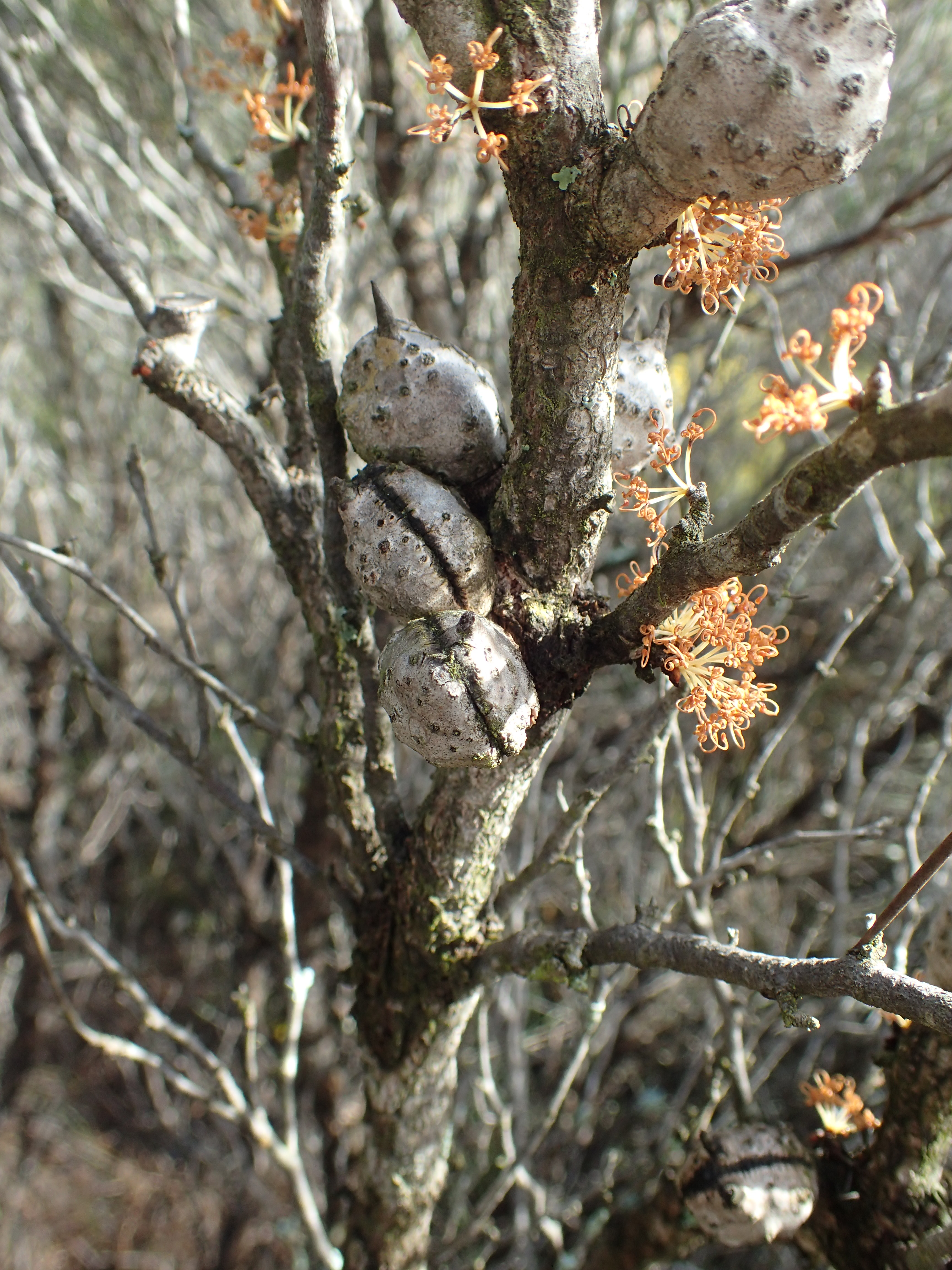 Fruit of Hakea bicornata (slightly damaged with the horns partly broken)